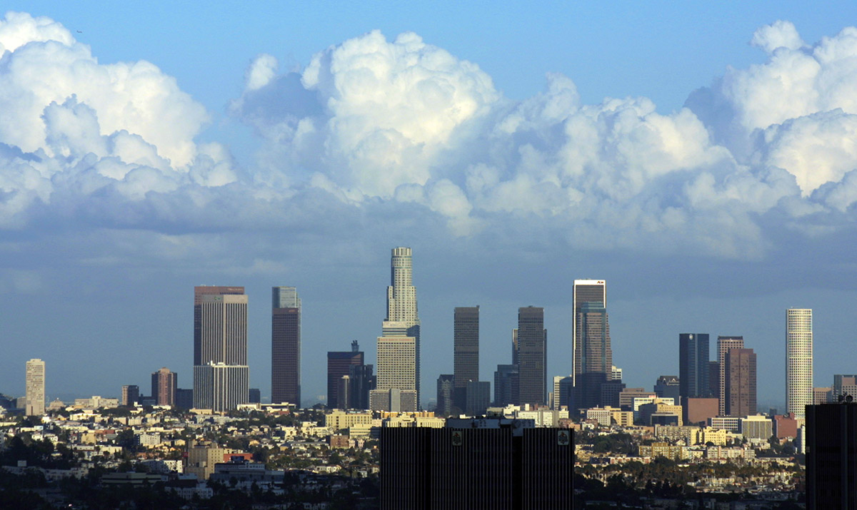 Downtown Los Angeles